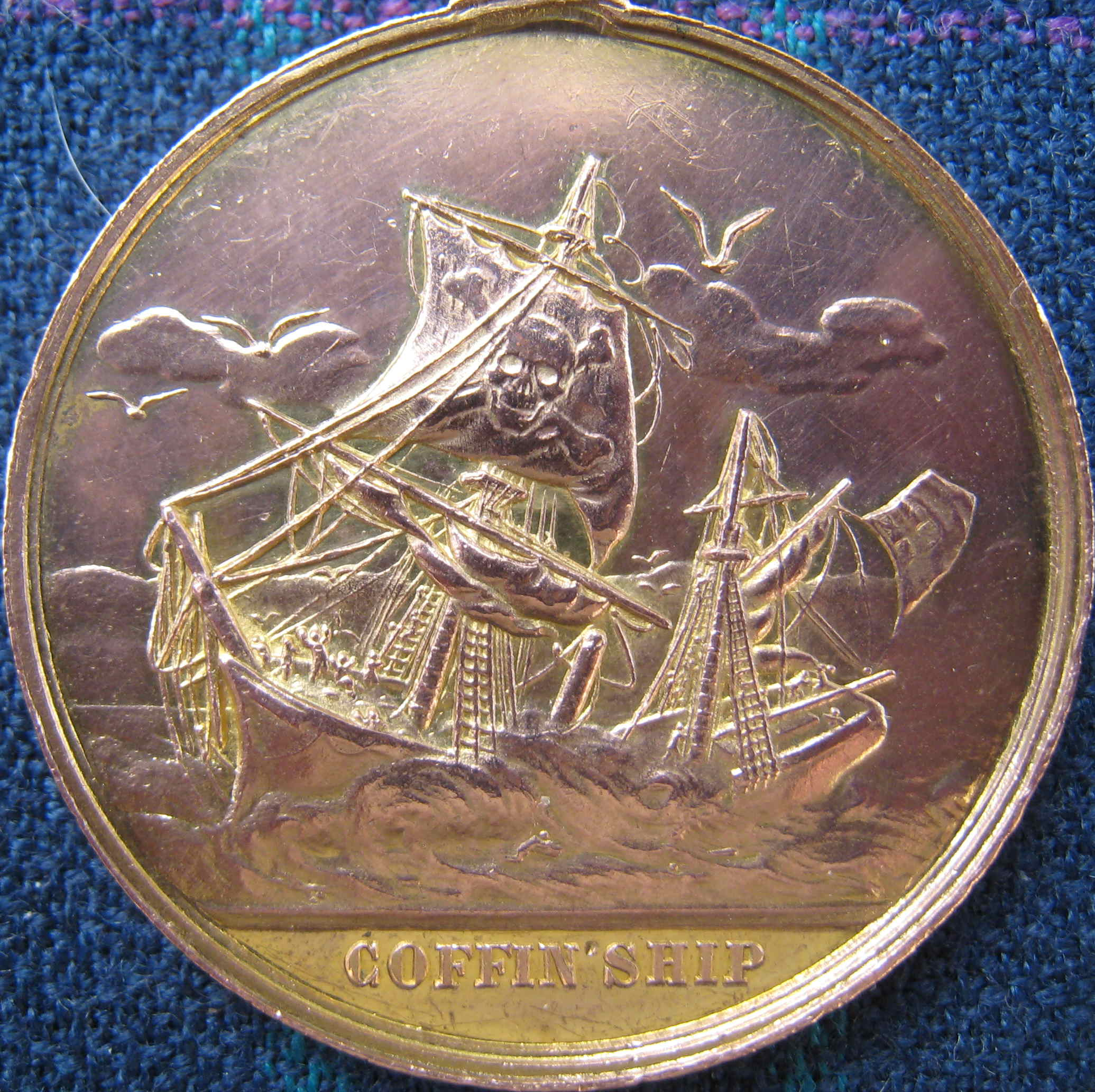 Laudatory medal 1875 Samuel Plimsoll - A.Chevalier - diameter 35mm